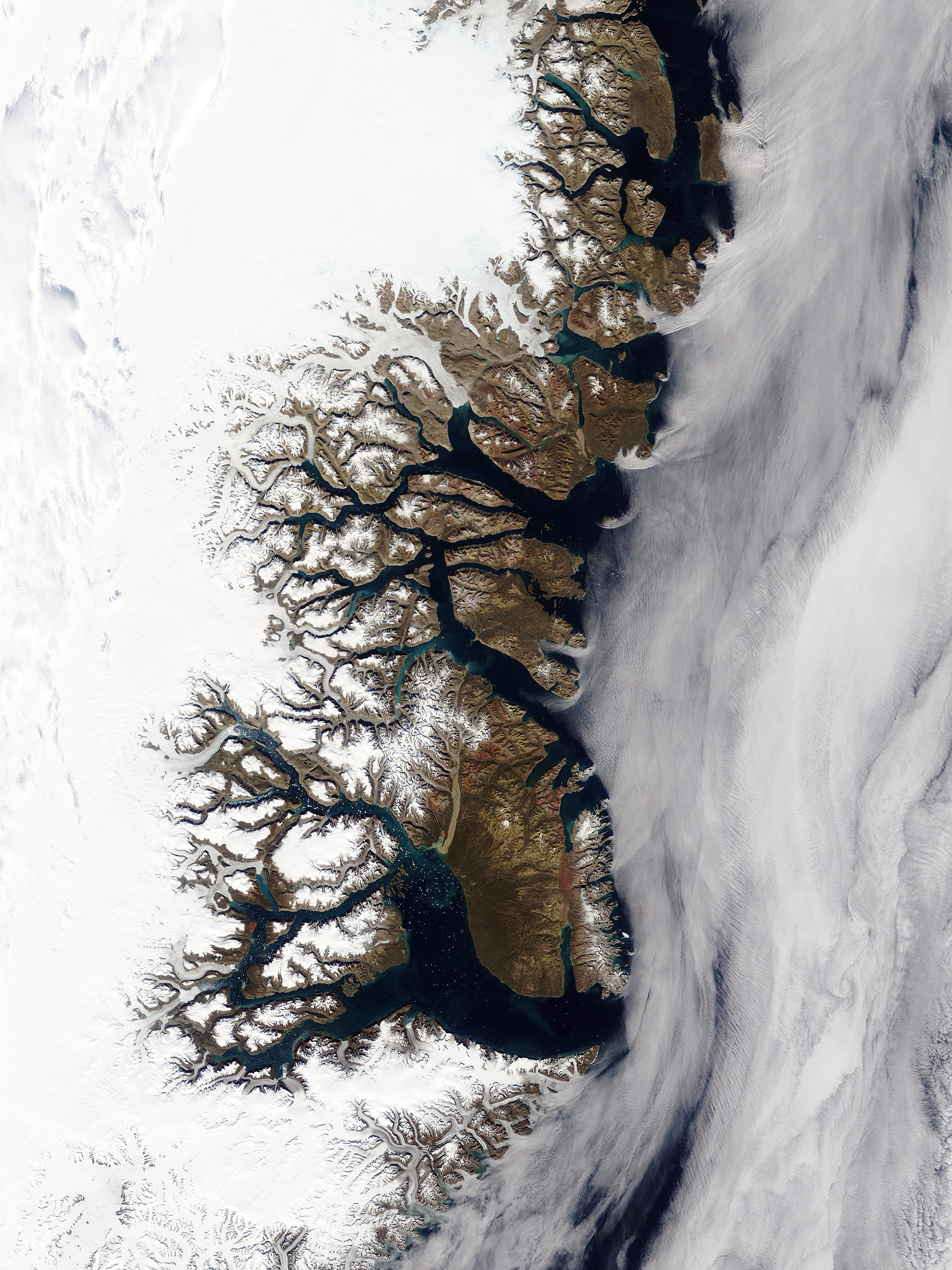 Greenland’s eastern coast is featured in this true-color Terra MODIS image from August 21, 2003. In the image, snows have yet to cover the coastal lands, and the waters in the fjords show spots of bright turquoise color from sediments deposited there by runoff. In the higher-resolution images, little spots of white in the water seem to be ice originating from the deeper fjords that reach all the way to the icecap covering most of the island.